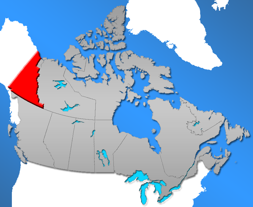 Yukon Territory in Canada